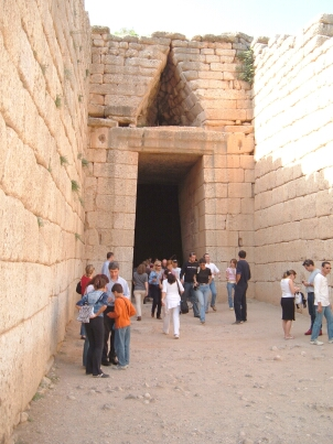 Corbelled arch, Entrance to the Treasury of Atreus, Mykene, Greece.